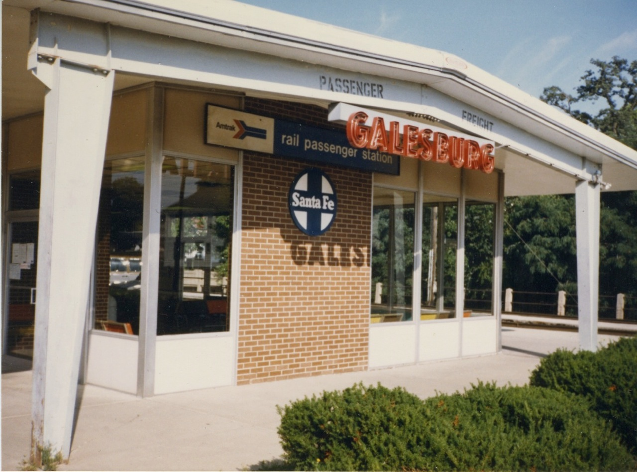 The Galesburg Santa Fe Railway Depot and former Amtrak station — Galesburg, Illinois. Built in 1964, and located near North Broad St. in Galesburg. A former Atchison, Topeka and Santa Fe Railway station, and closed in 1996 with the opening of the new Galesburg Amtrak station (platform).